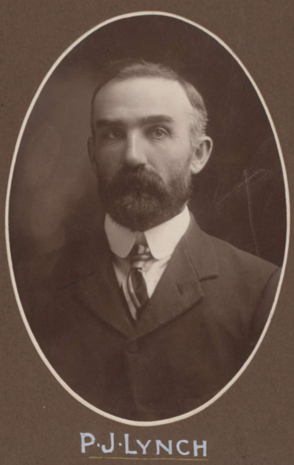 A 1908 black and white portrait of Patrick Lynch, Senator for Western Australia